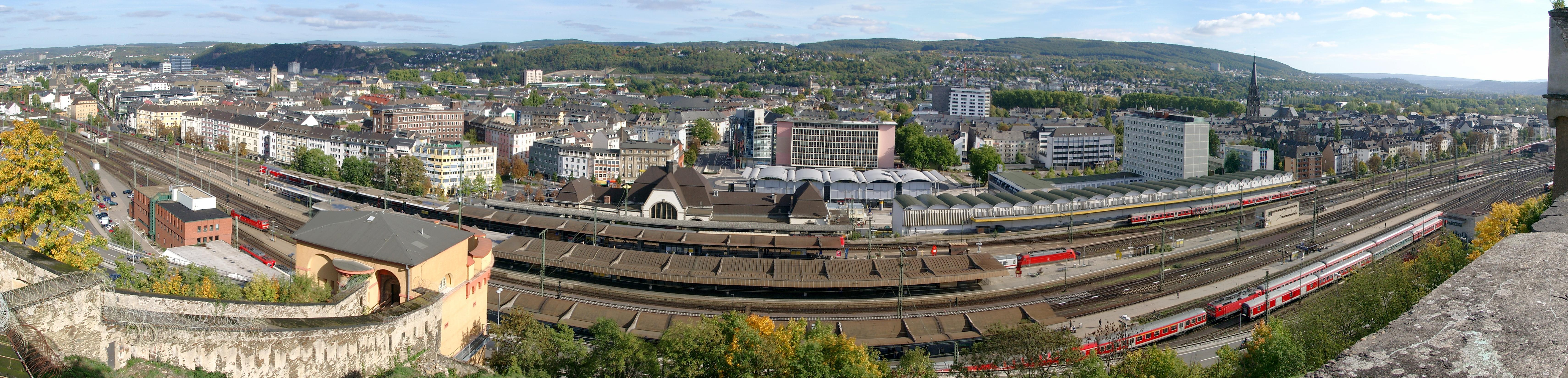 Panorama Central Station of Koblenz